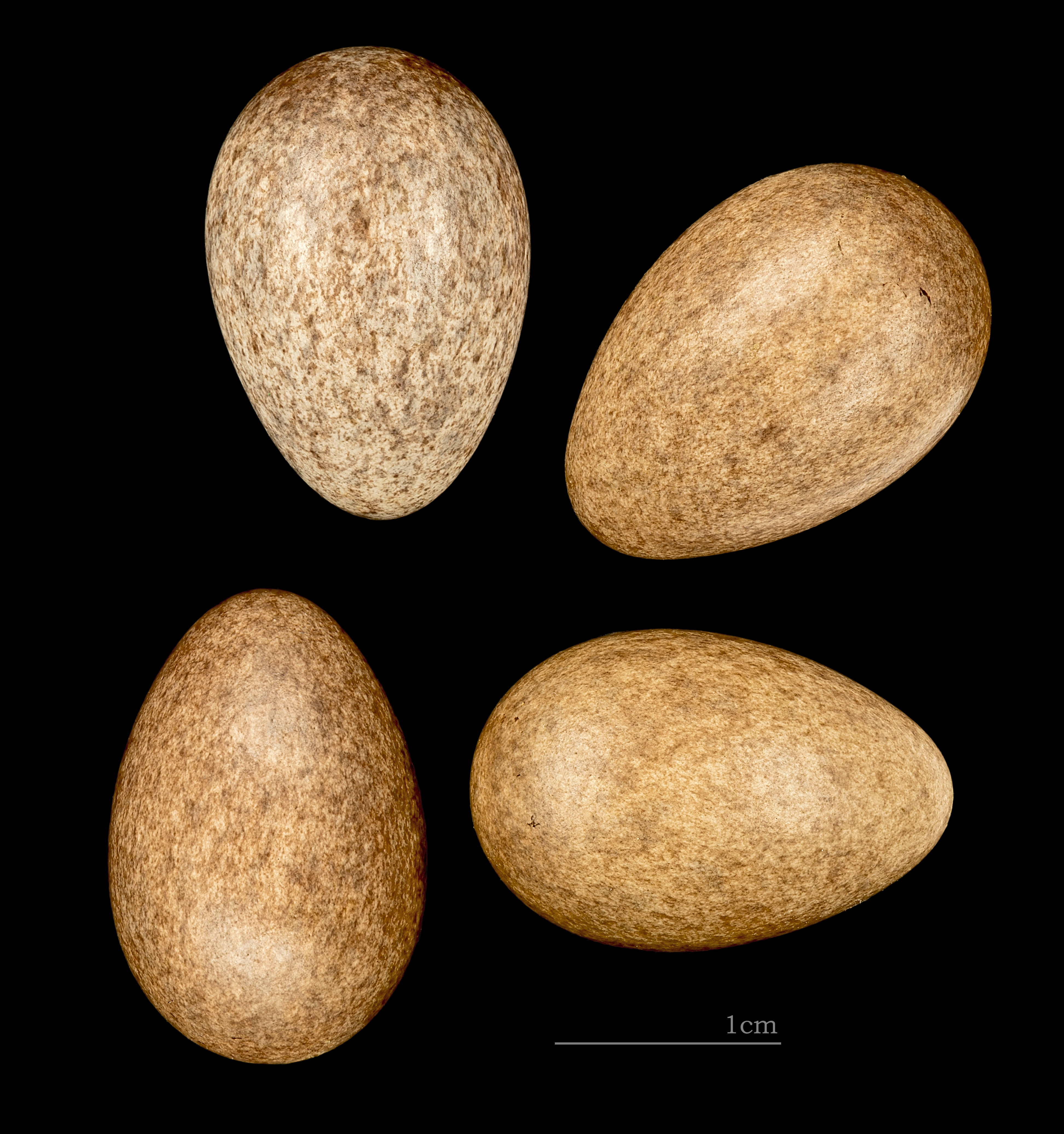 Egg of Desert Sparrow Collection of Jacques Perrin de Brichambaut.